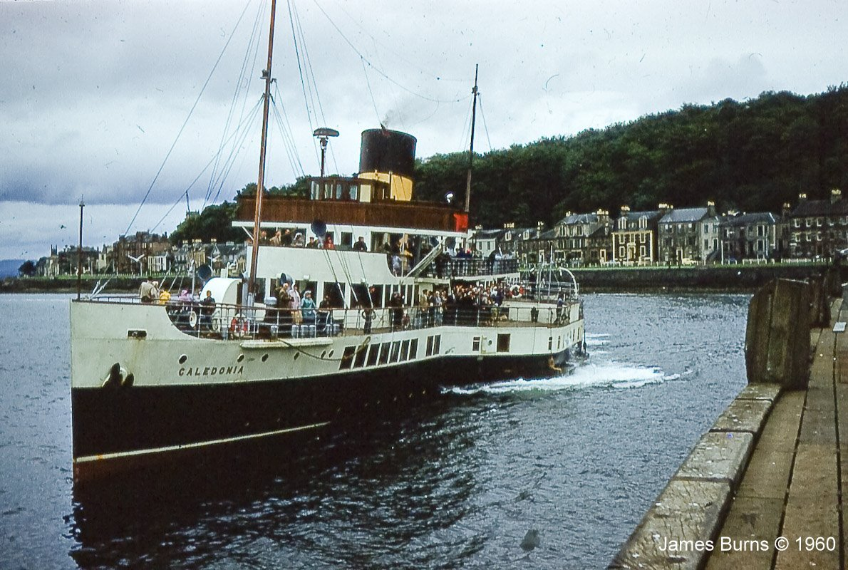 PS Caledonia, at Rothesay pier.